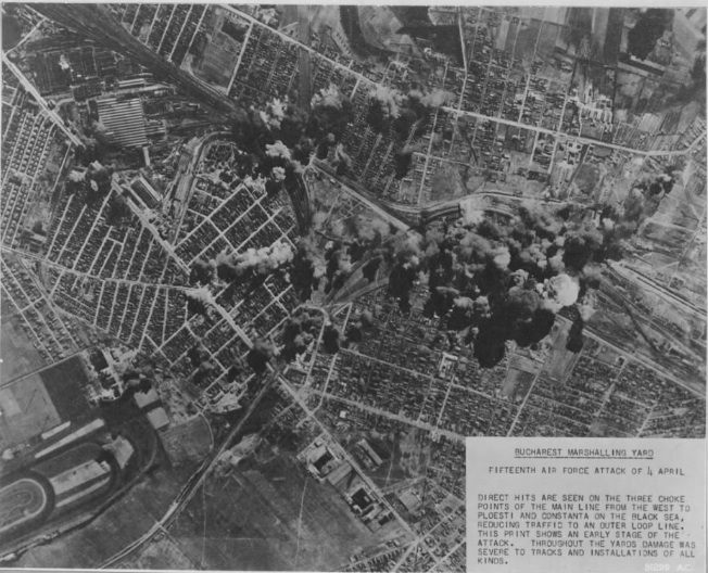 Gara de Nord, Bucharest, Romania is bombed by the US Air Force in World War II